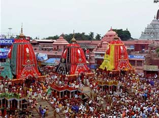 rath yatra